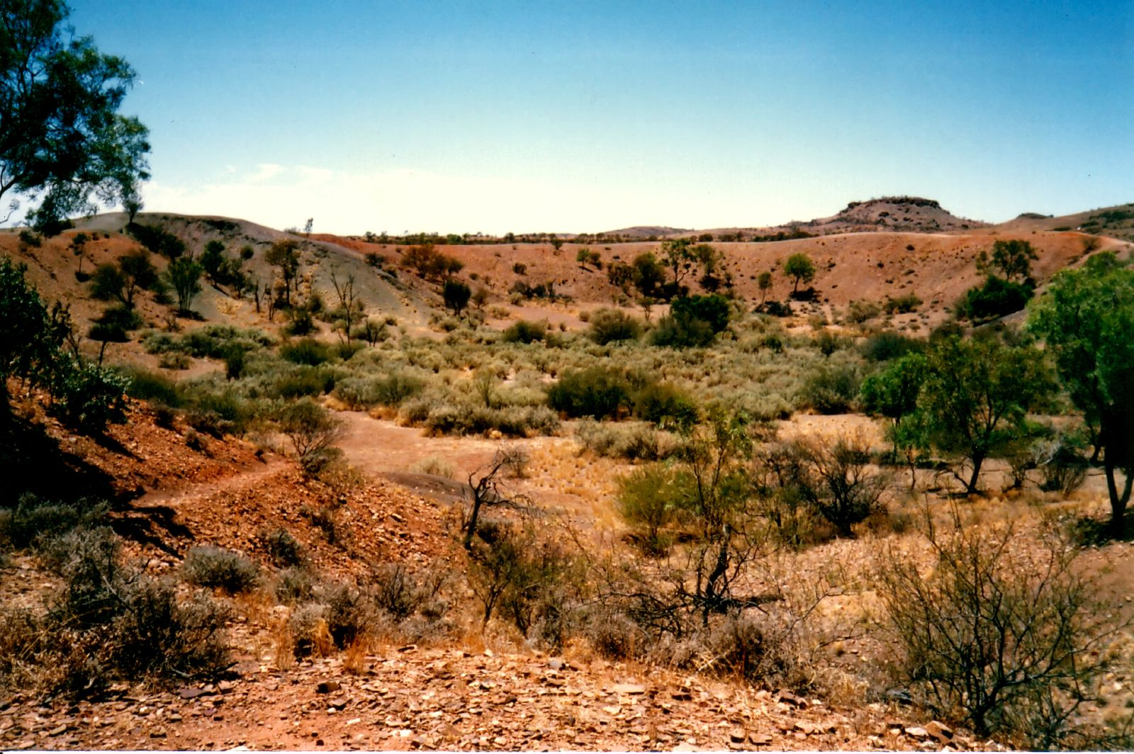 Henbury Meteorites Conservation Reserve, 145 kilometres south west of Alice Springs, contains twelve craters, which were formed when a meteor hit the earth’s surface 4,700 years ago. The Henbury Meteor, weighing several tonnes and accelerating to over 40,000 kilometres per hour, disintegrated before impact, and the fragments formed the twelve craters.